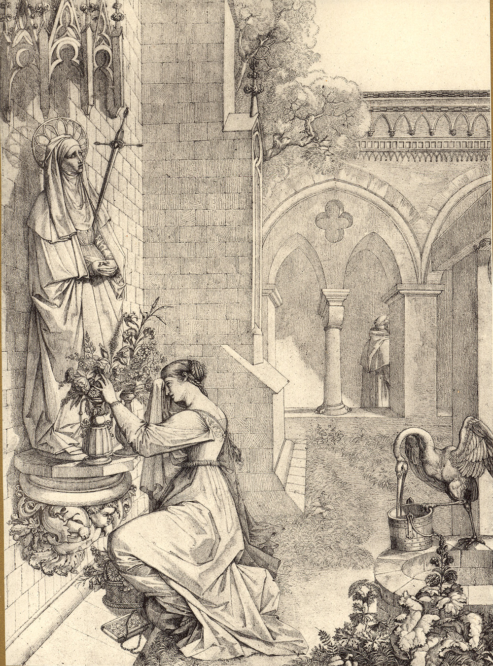 Gretchen in front of the Mater Dolorosa, engraving by Ferdinand Ruscheweyh of an illustration by Peter von Cornelius after “Faust” by Goethe